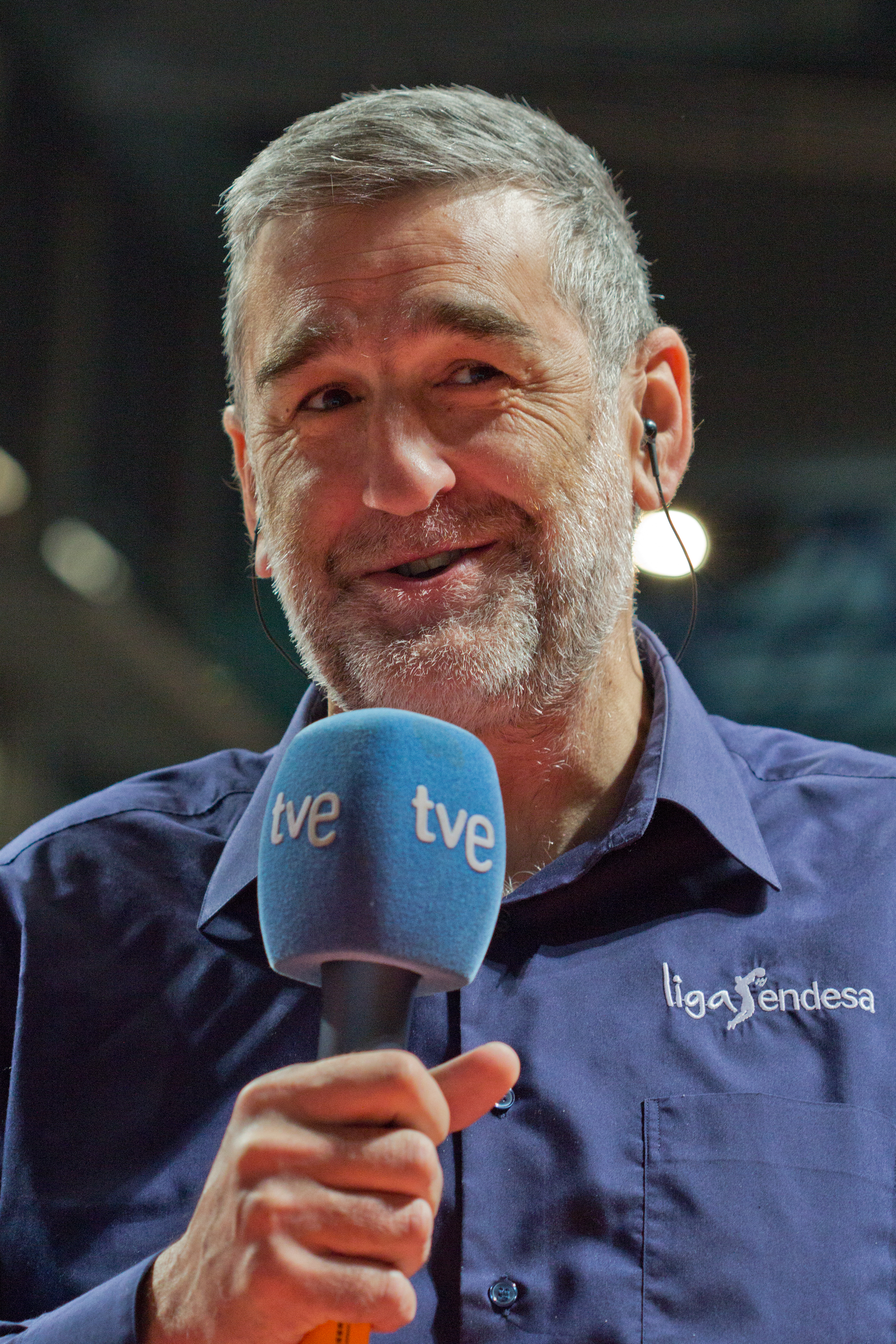 Juanma López Iturriaga broadcasting with TVE the match Estudiantes vs Unicaja of the League ACB.